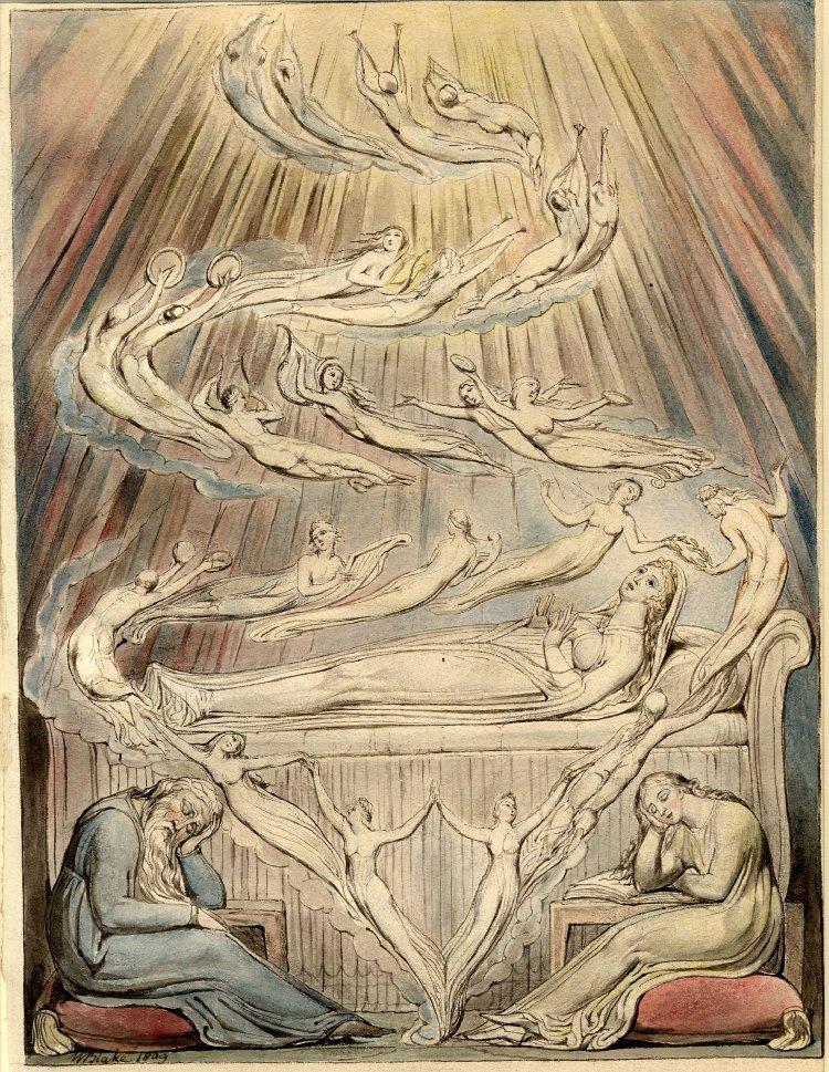 William Blake 'Queen Katharine's Dream', illustration to 'Henry VIII' 1809